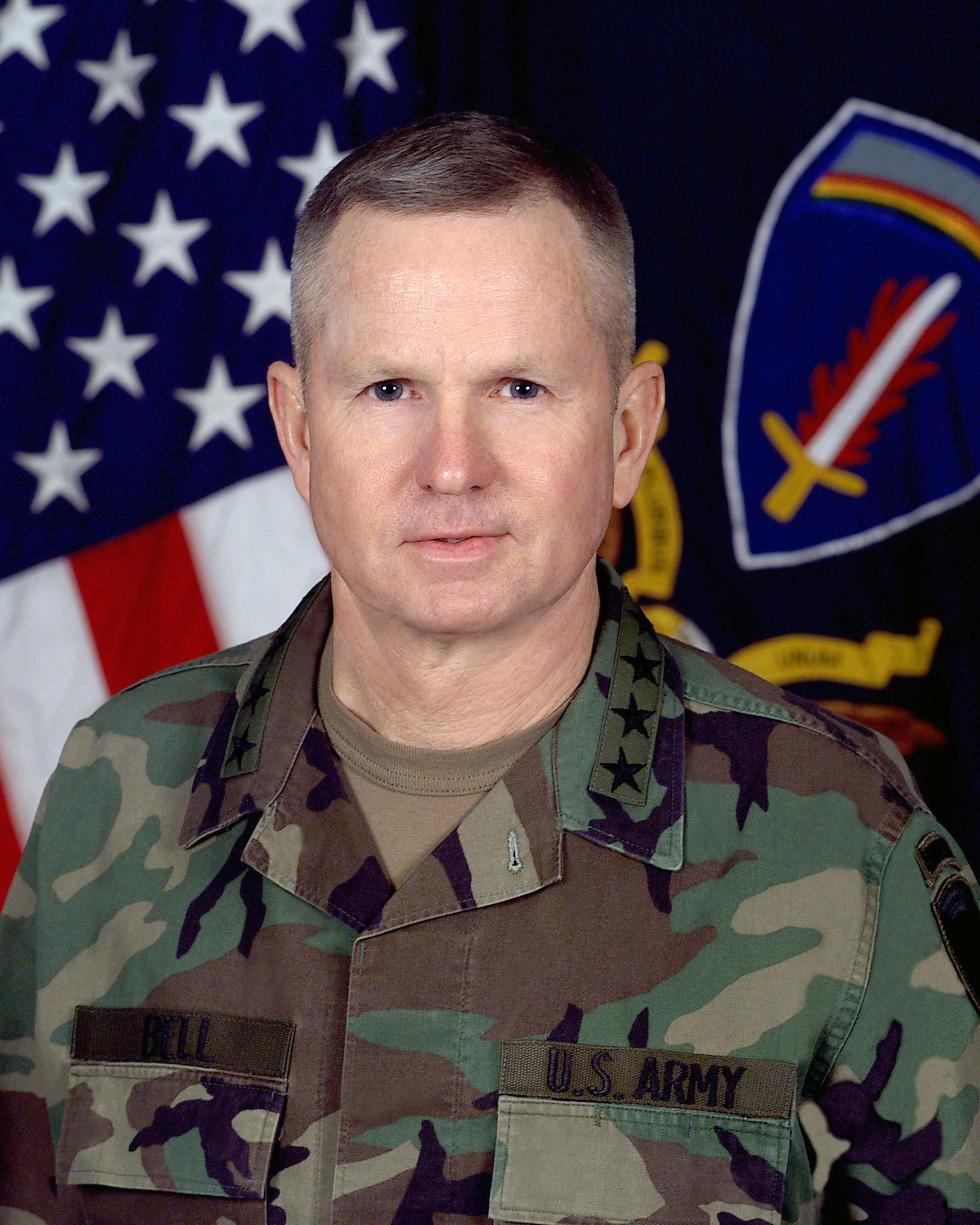 GEN Burwell B. Bell, Commanding General USAEUR